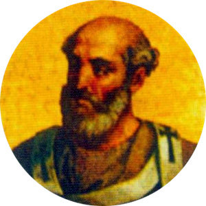 Portait of Pope Theodore I in the Basilica of Saint Paul Outside the Walls, Rome